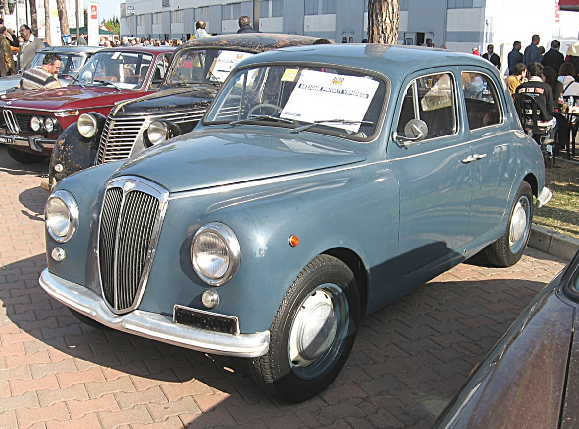 Subject: Lancia Appia 1st series Date:October 26th, 2008 Event: Auto e Moto d'Epoca 2008 Place/Country: Padova, Italy I release all rights in the public domain.